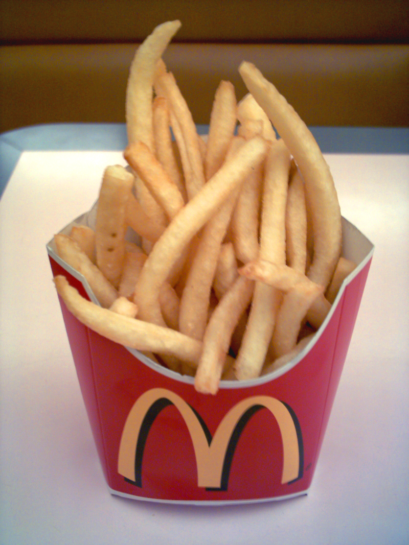 mcdonalds Mac_French fries Potato in Japan photography day, 2006/10/13 photography person kici